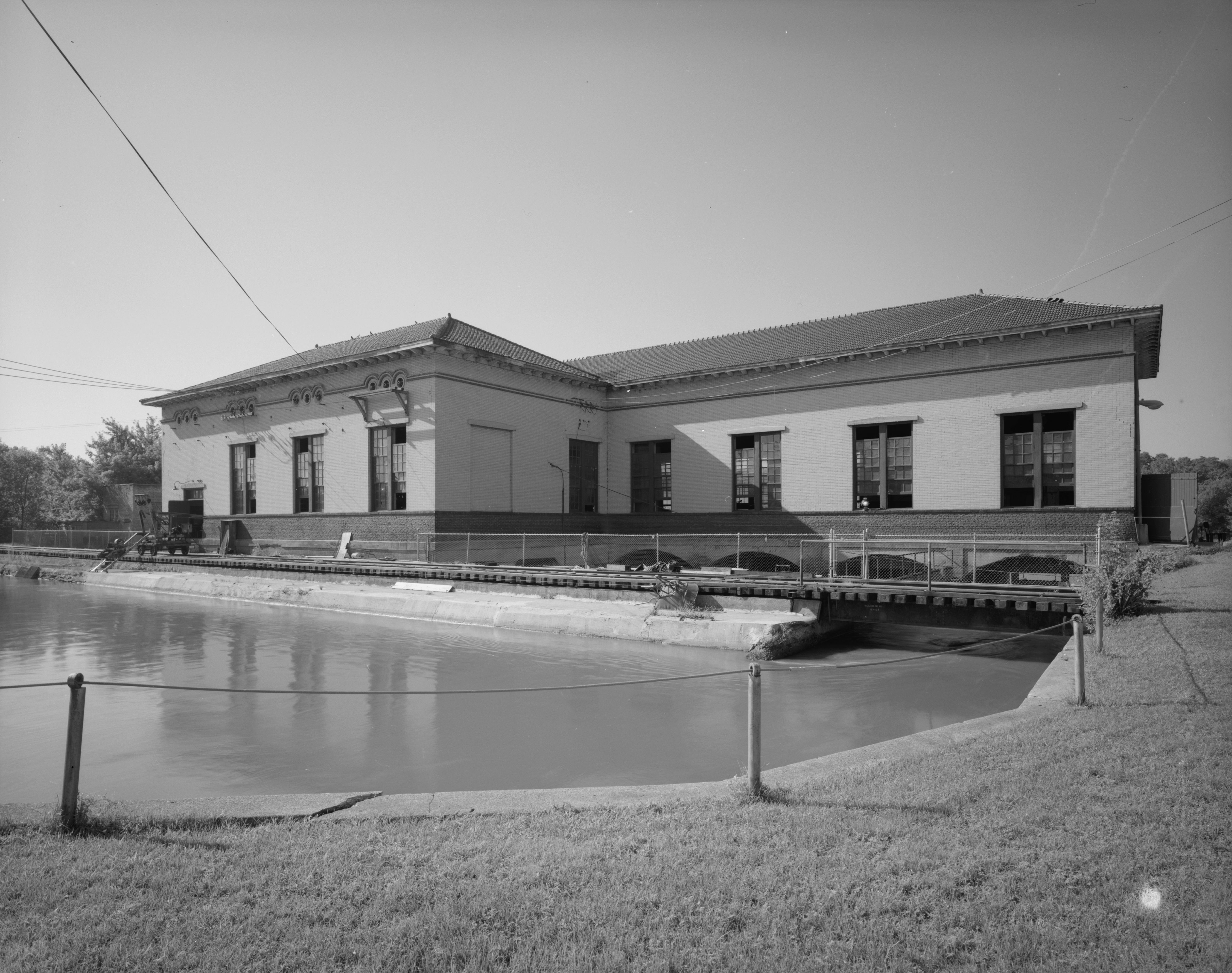 North facade of the plant, looking southeast.